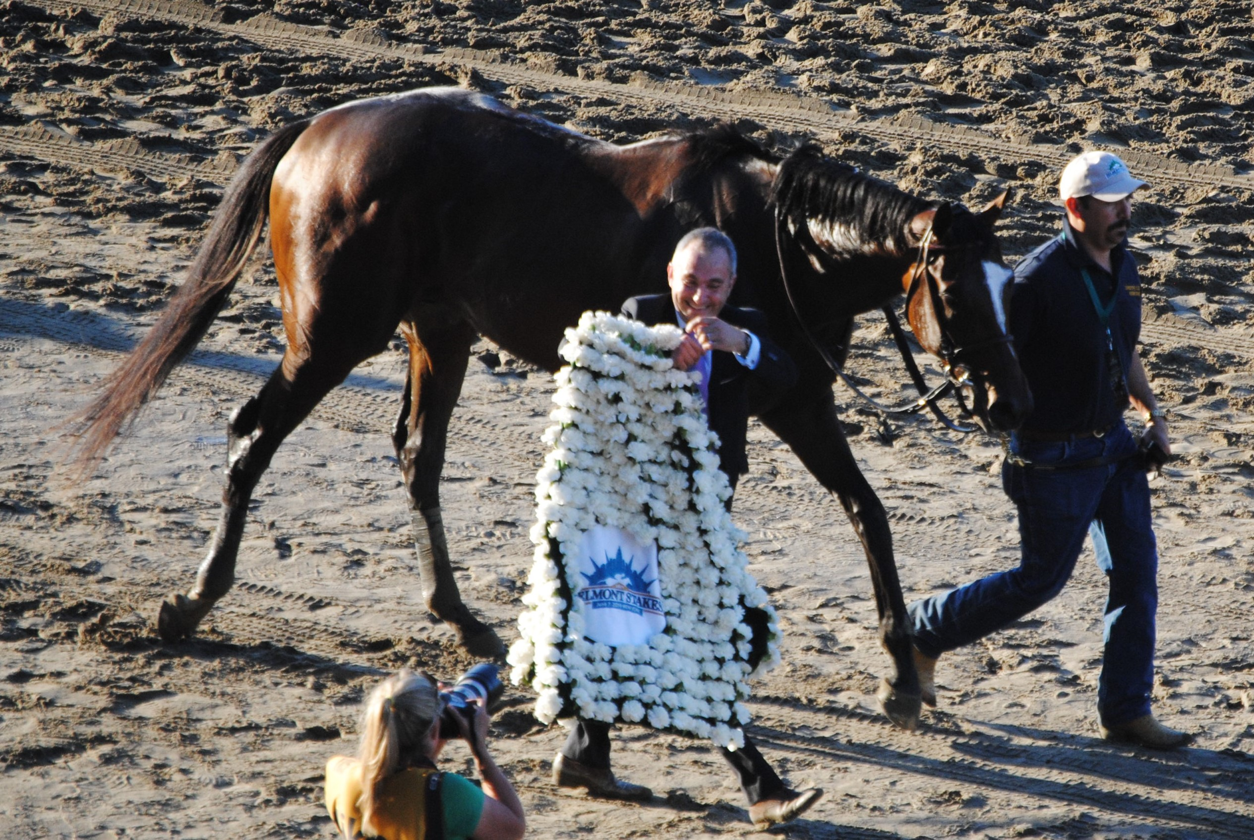 Tonalist in 2014 with the winners blanket for the Belmont Stakes, made of white carnations